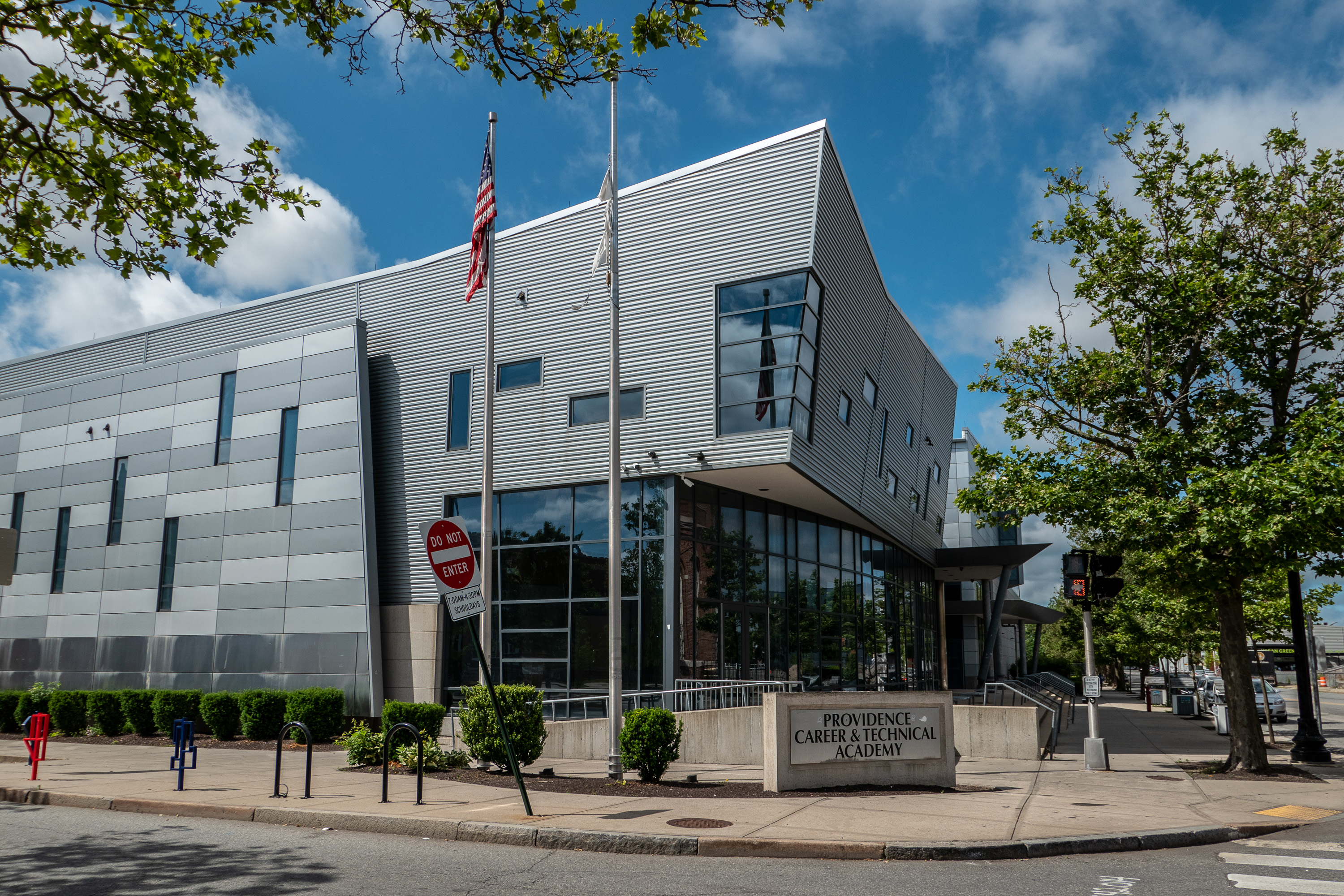 Providence Career & Technical Academy, Westminster & Fricker Streets.